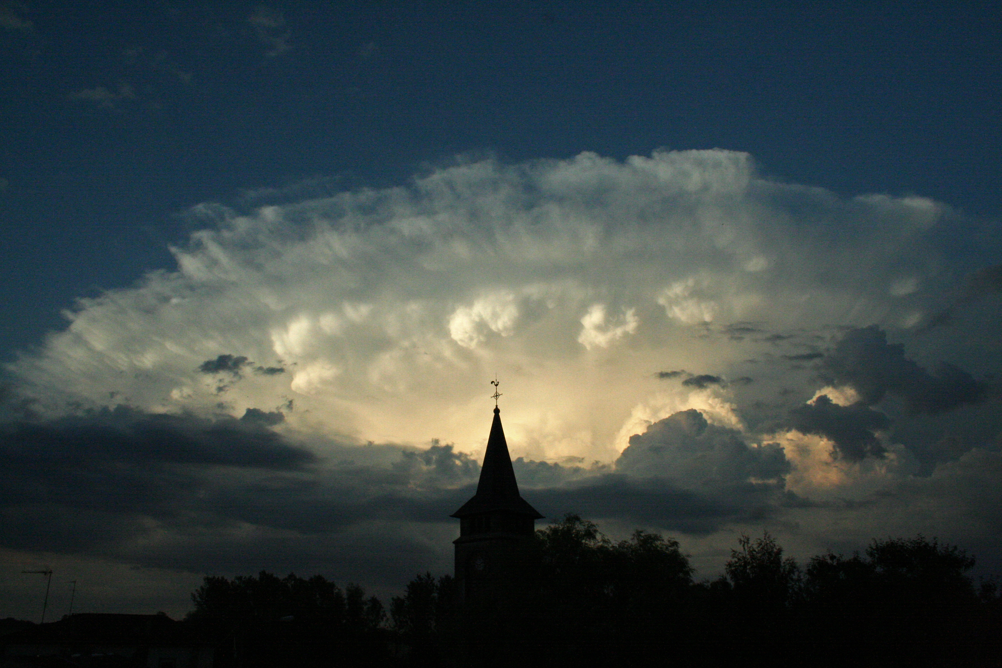 Cumulonimbus with anvil behind the church at twilight in Doncières (Vosges, Lorraine, France).